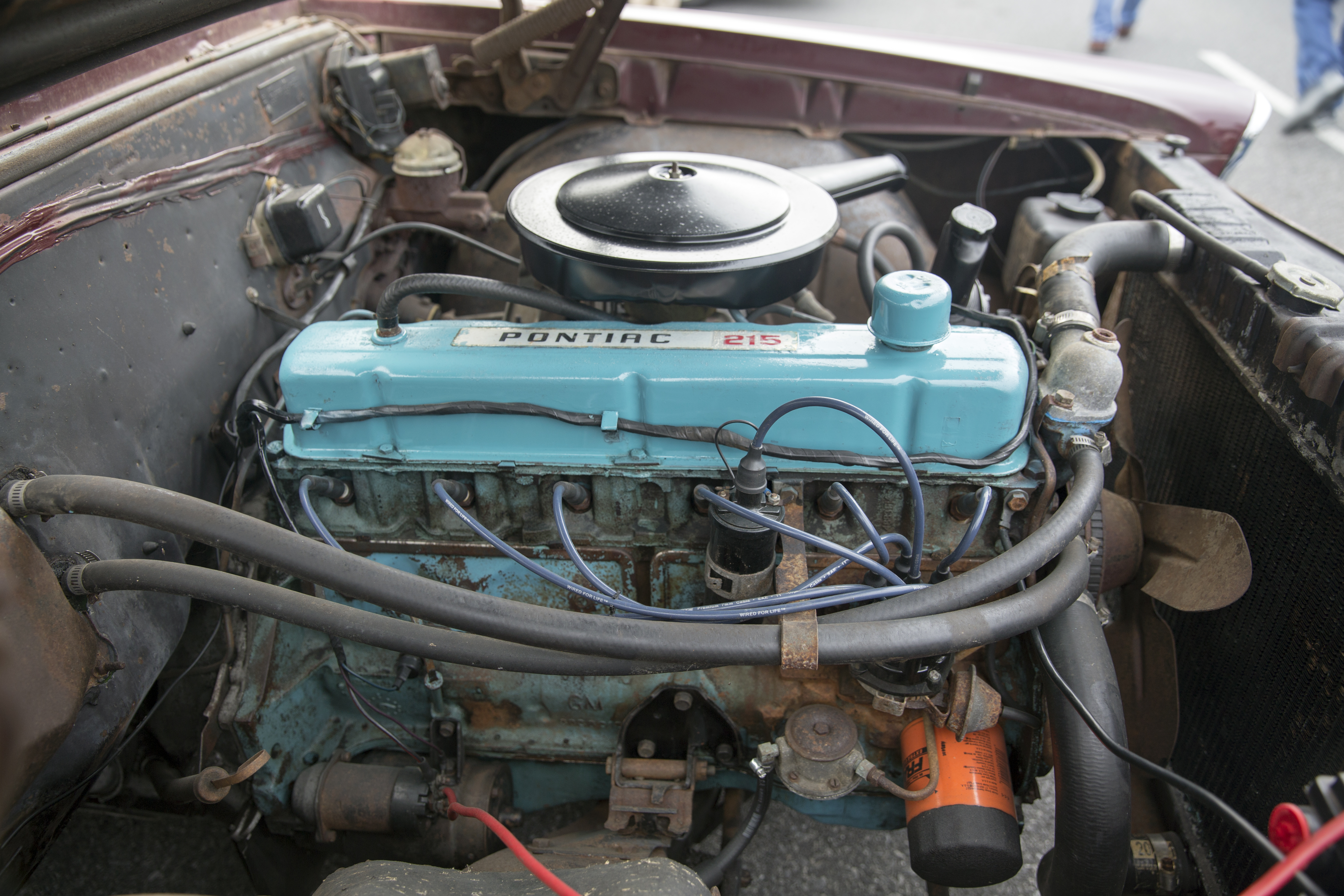 The 215ci OHV inline-six in a 1965 Pontiac LeMans offered for sale at Hershey 2019. This is actually a small-bore version of Chevrolet's 230ci engine, fitted with a different bellhousing pattern. Only offered by Pontiac in 1964 and 1965, and although it has Chevrolet origins the car has prominent PMD6 ("Pontiac Motor Division 6") badges on the front flanks.